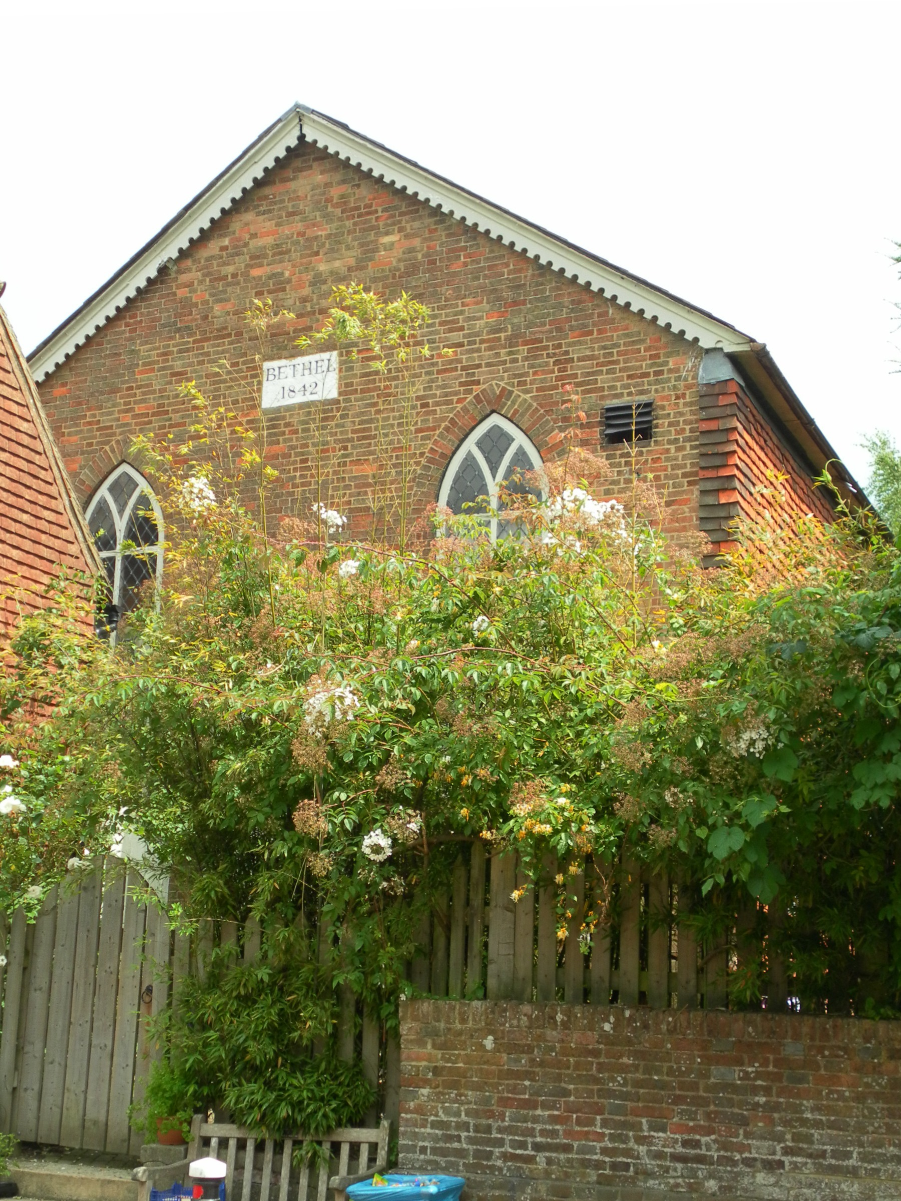 Former Bethel Strict Baptist Chapel, High Street, Robertsbridge, District of Rother, England. Listed at Grade II by English Heritage (NHLE Code 1221399)